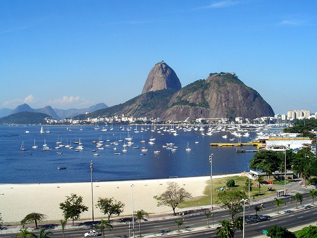 Sugarloaf Mountain - Rio de Janeiro, Brazil